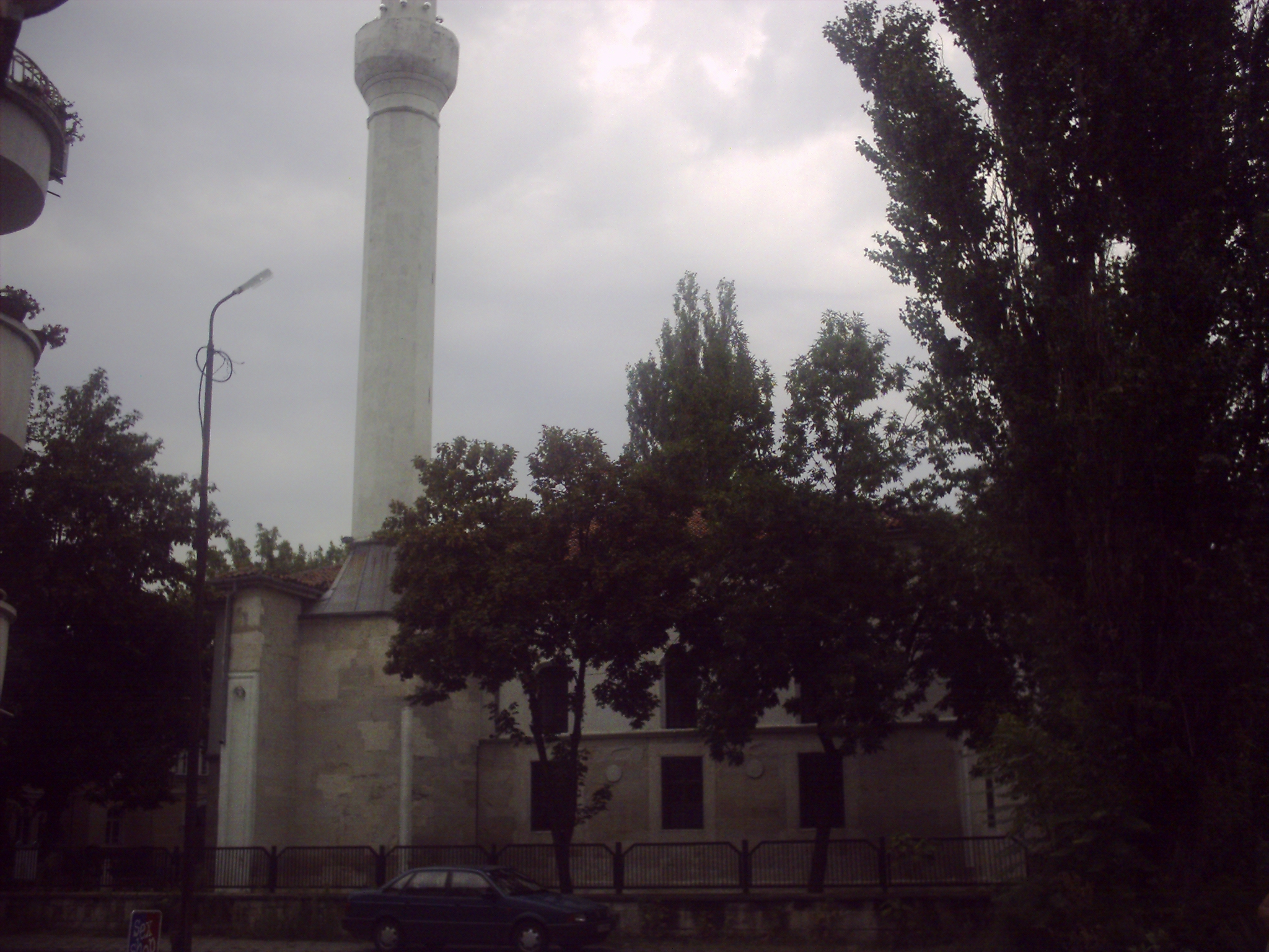 The mosque of Osman Pazvantooglu in Vidin, Bulgaria